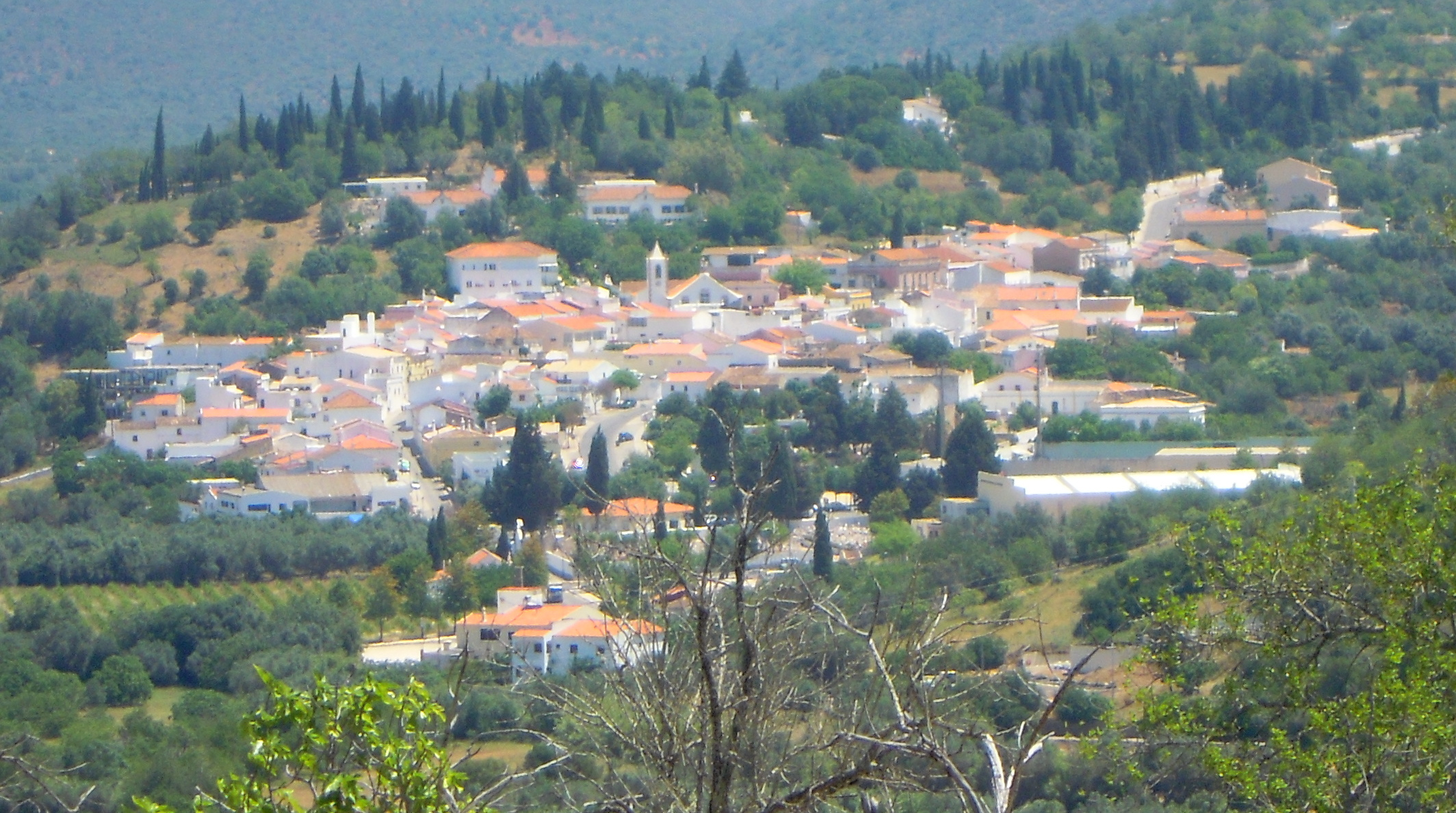 The village of Paderne near Albufeira, Algarve, Portugal. photographed from the top of Cerro de São Vincente